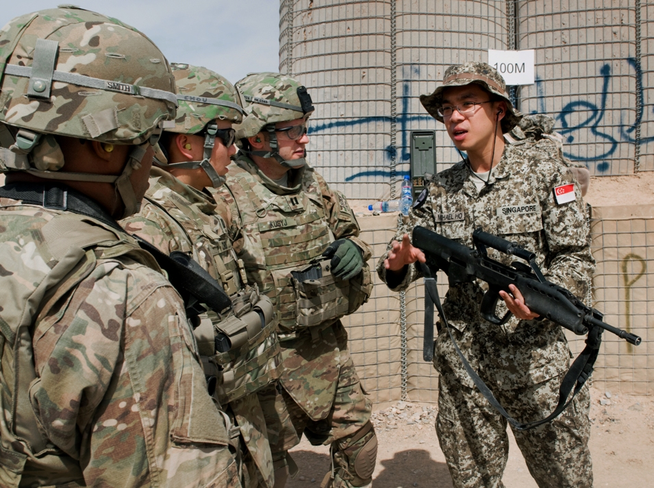 A Singaporean soldier gives an overview of the SAR 21 rifle to a group of U.S. Army Soldiers during a weapons familiarization range Mar. 11, at Multi-National Base Tarin Kot, Afghanistan. The purpose of the range was to give servicemembers from different countries a functional understanding of other nations' weapons. U.S. Army photo by Specialist Edward A. Garibay